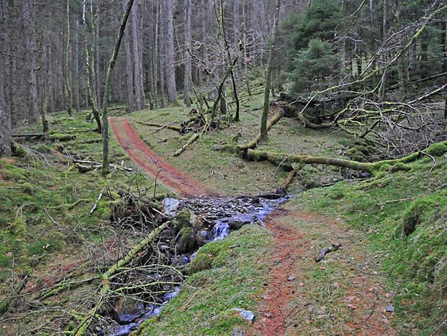 Ford on path in East Dundurn Wood One of several small burns crossing the path